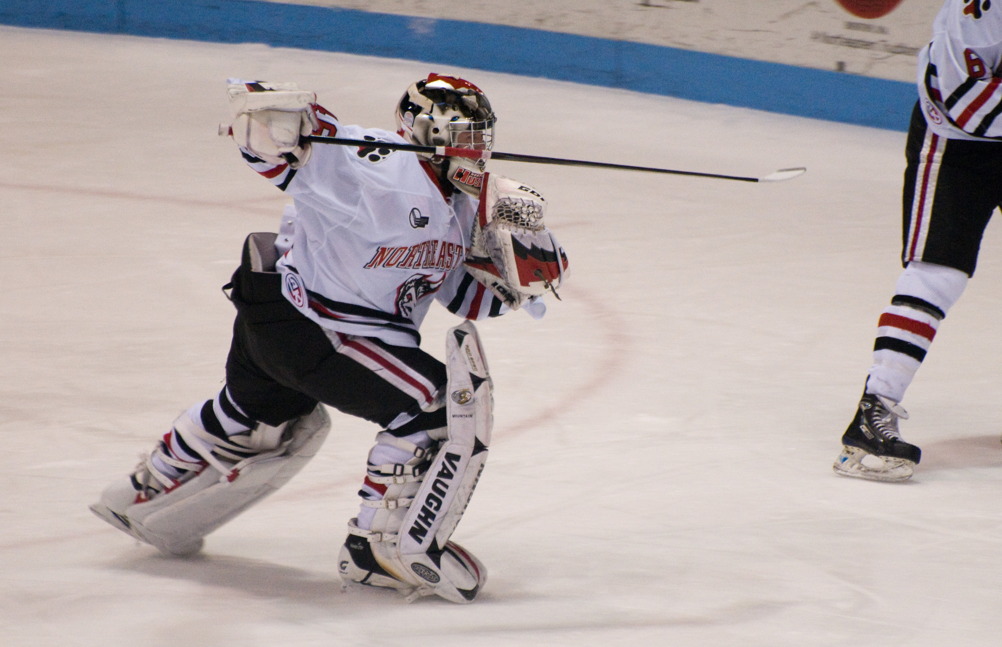 Mountain skates off Hockey East: 1/10/2010 UMass @ Northeastern; UMass won 4-1